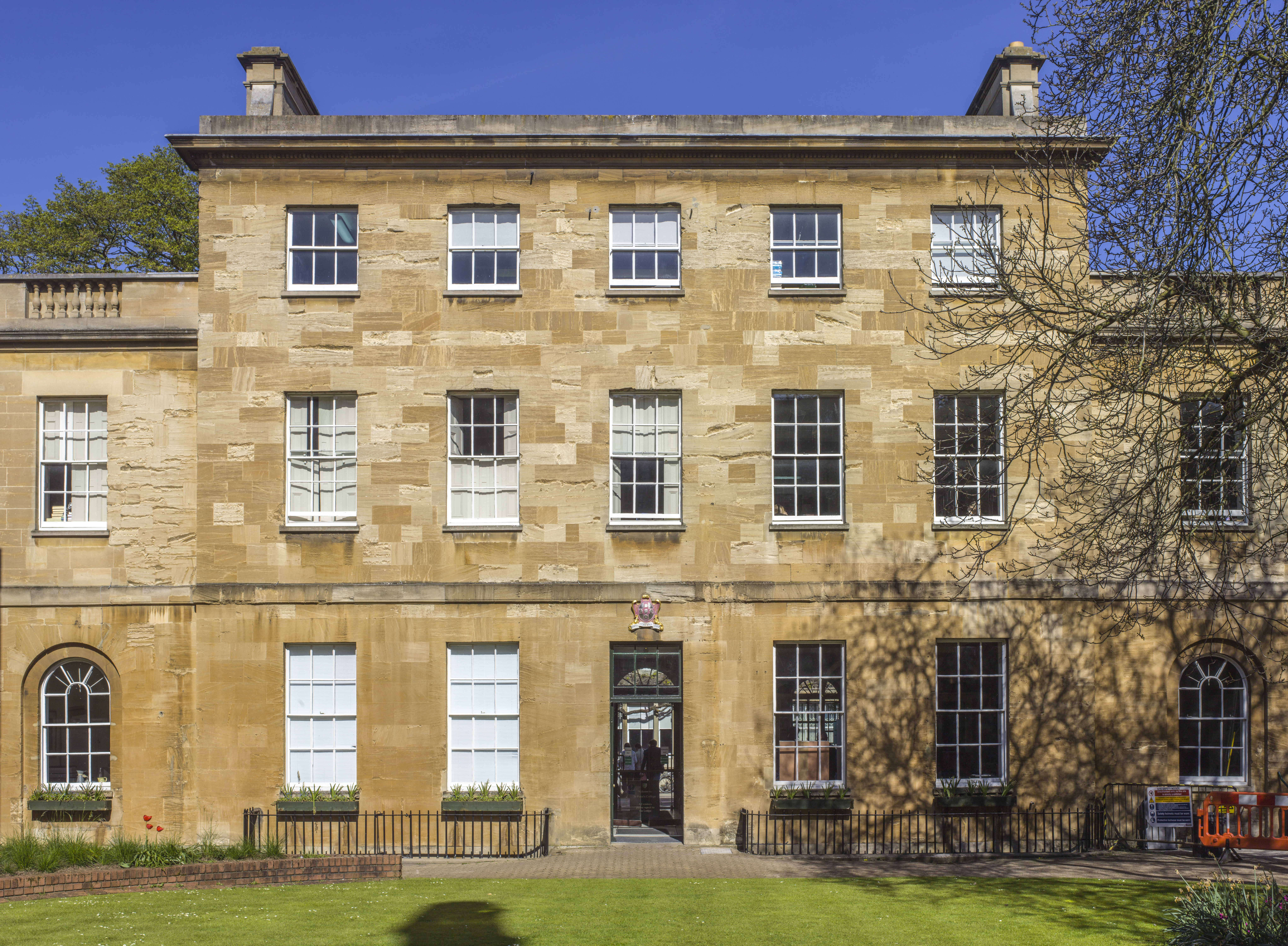 St Peter's College (Oxford University) founded in 1929 as St. Peter’s Hall, 1961 as St. Peter’s College. View of Porters' Lodge (Linton House) from Linton Quad.